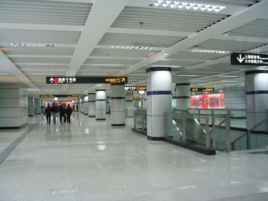 上海體育館站-4號線大堂 Line 4 Concourse of Shanghai Indoor Stadium Station